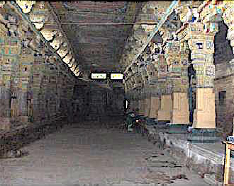 Tiruchuli Thirumeni nathar temple inside